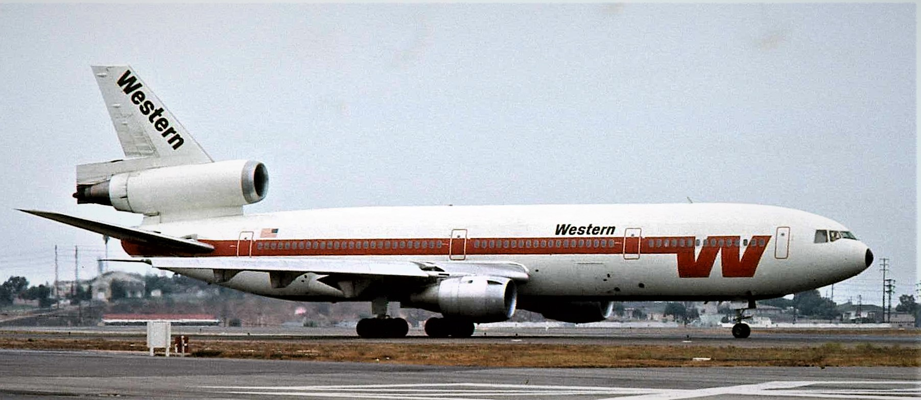 Western Airlines, one of the McDonnell Douglas DC-10 delivered from April 1973.